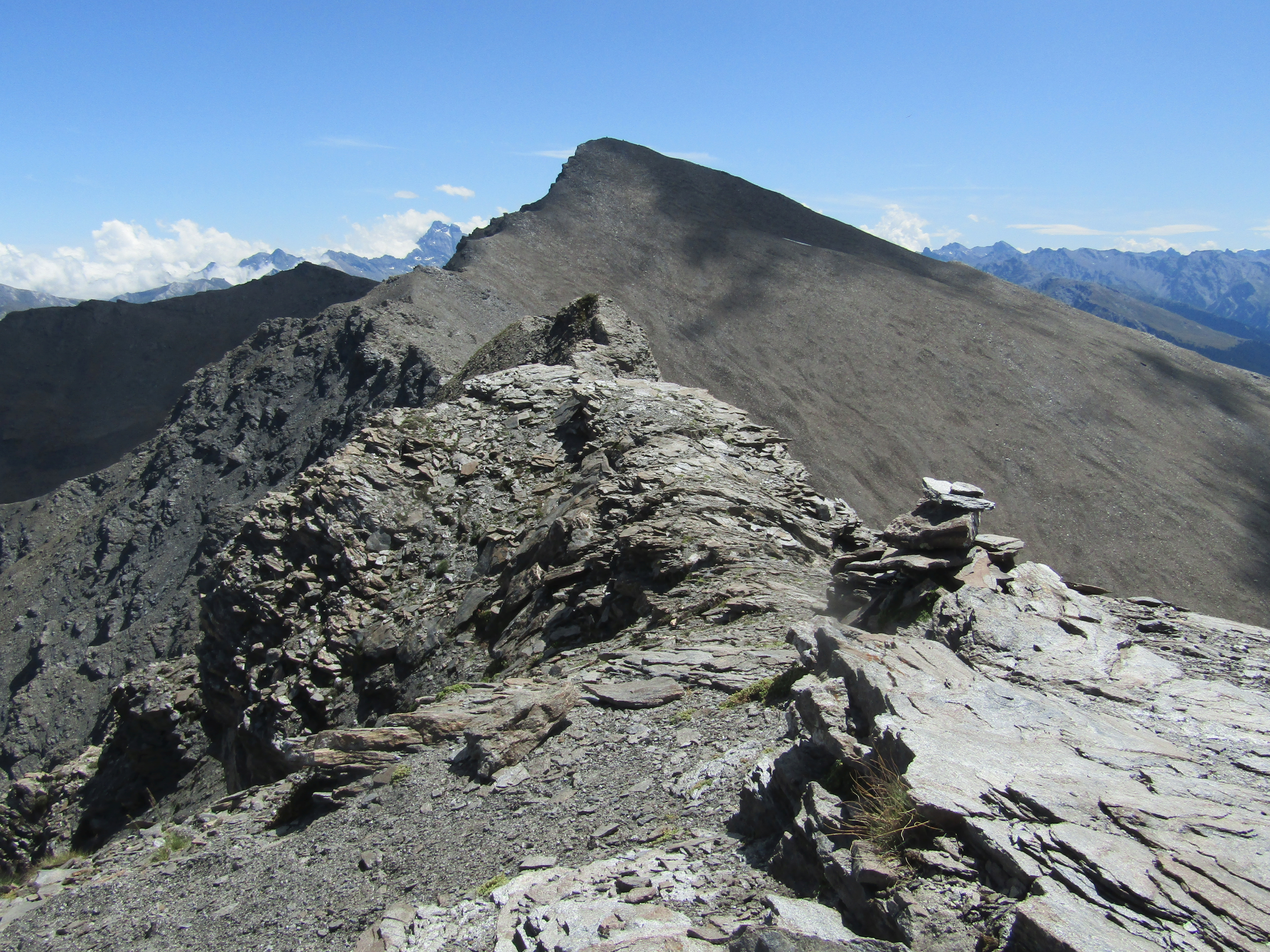 The Pic du Lombard (Cottian Alps, France): summit cairn and view on Petit Rochebrune and Monviso